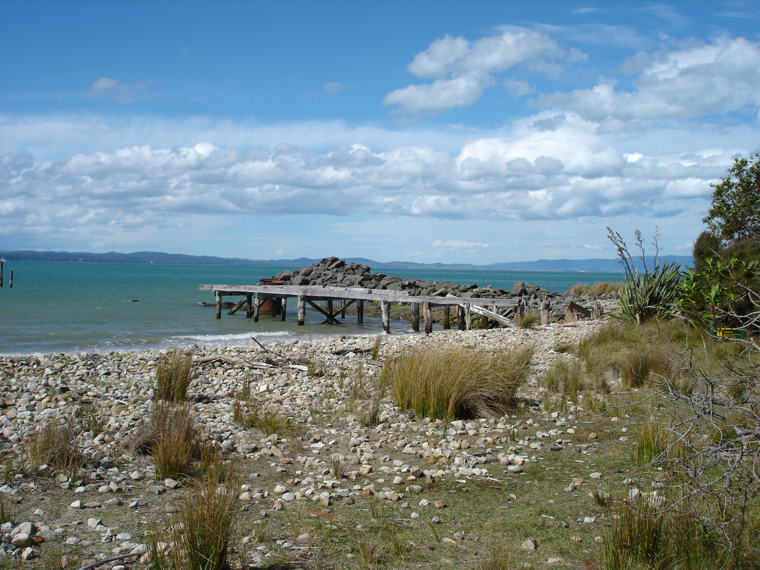 I took this photo a few yesterday at Port Craig.